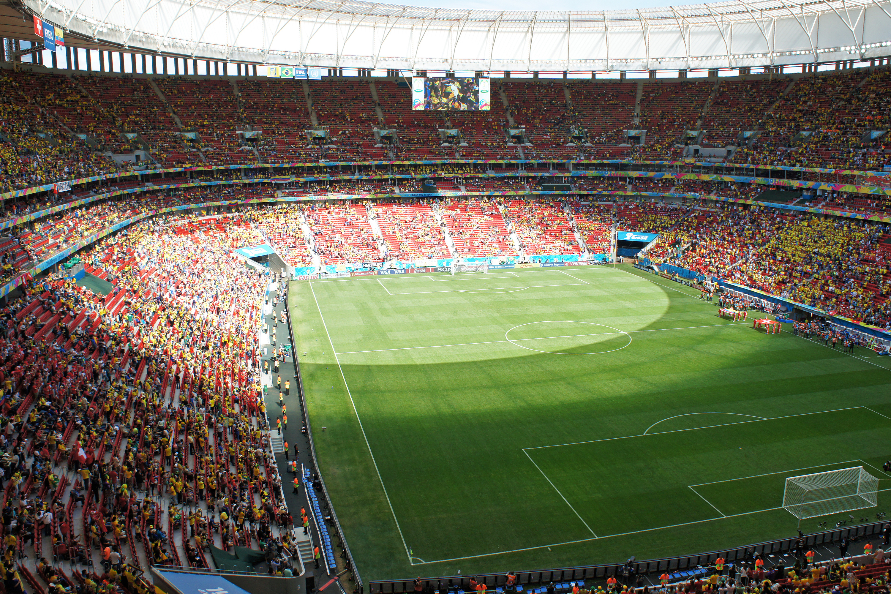 Switzerland and Ecuador match at the 2014 FIFA World Cup , Estádio Nacional Mané Garrincha, Brasilia